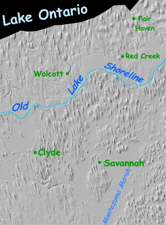 Drumlin Field: Wayne County, NY (large) Image is Shaded Relief Imagery, derived from the US Geological Survey National Elevation Dataset, modified by Pollinator USGS-authored or produced data and information are in the public domain.